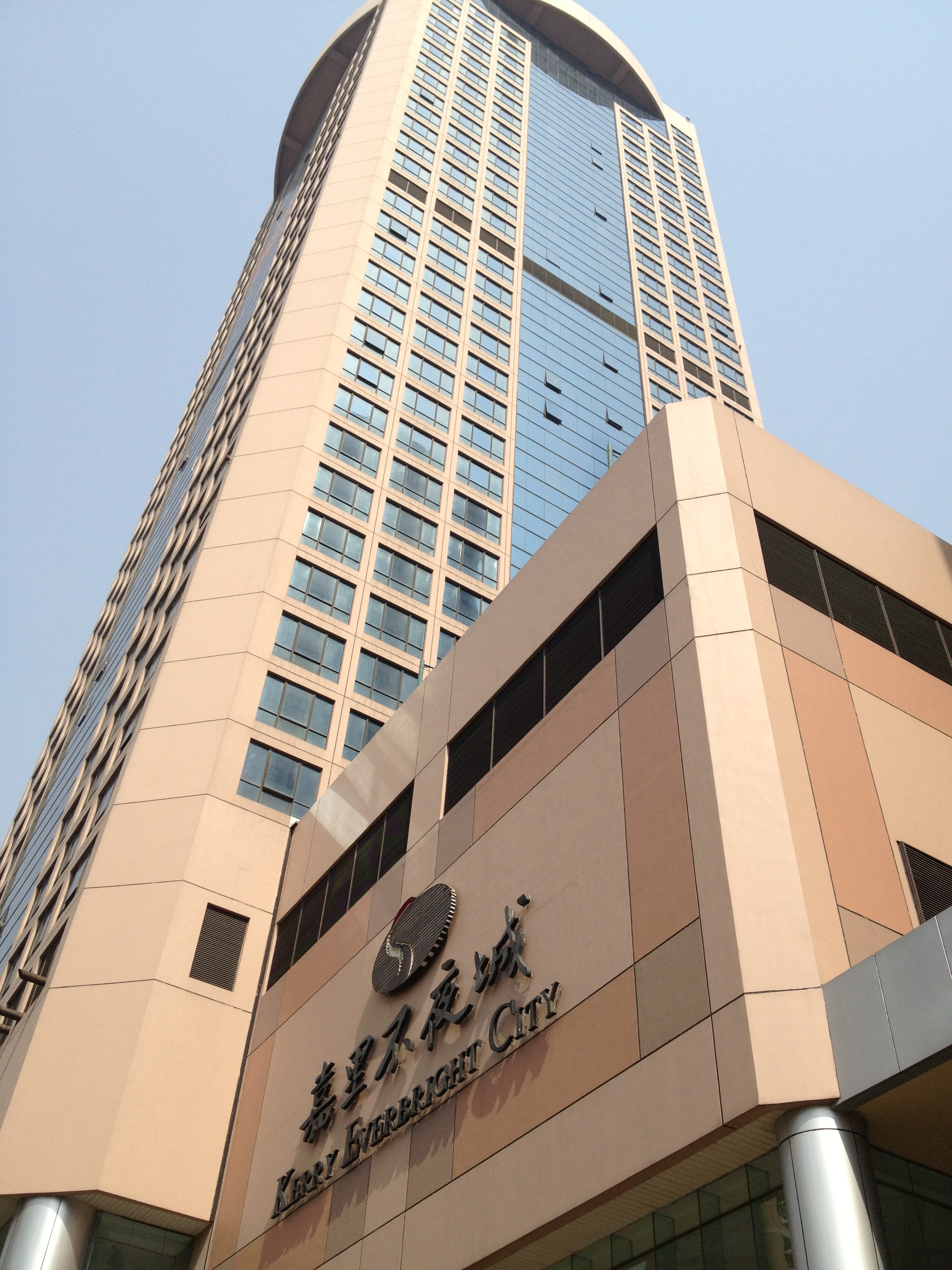 PanAn Testing & Engineering Company Office in Shanghai